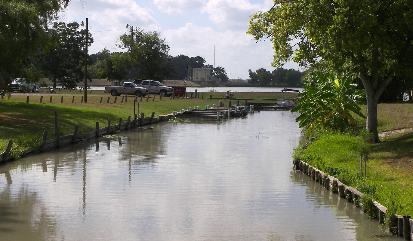 The recreational area at Lake Wood located in Gonzales County, Texas, United States